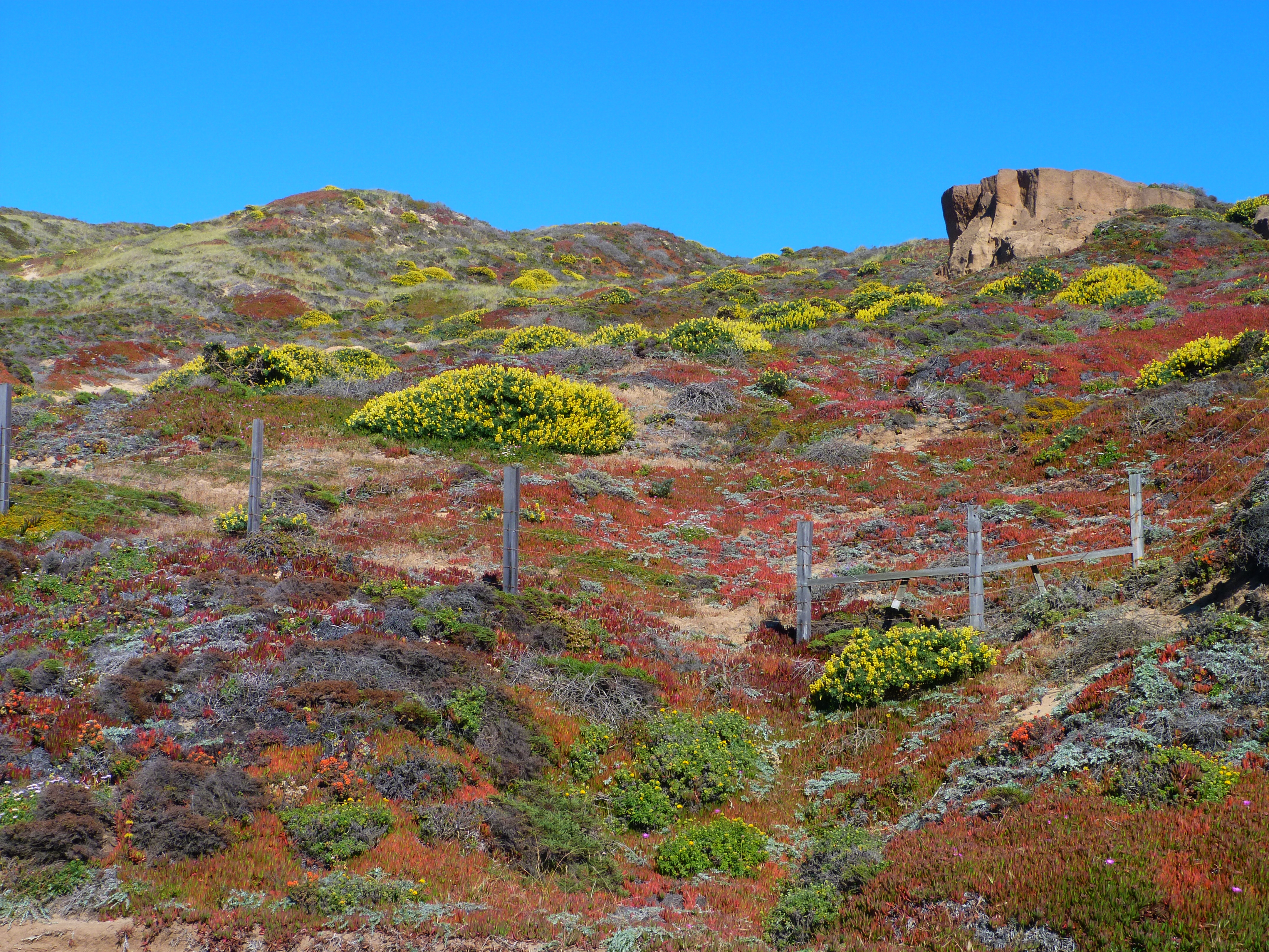 Big Sur, California, USA